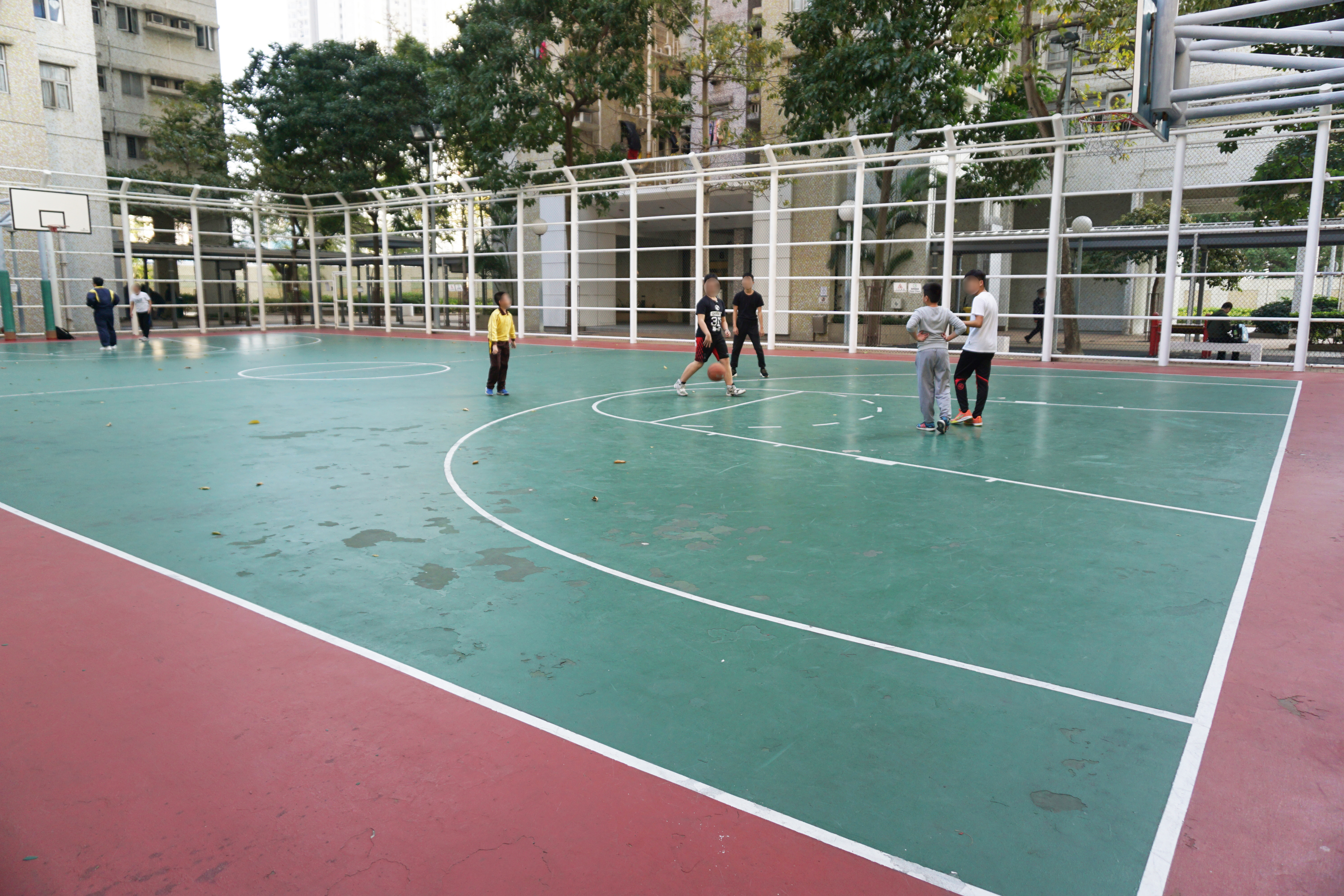 Rhythm Garden in San Po Kong, Hong Kong.